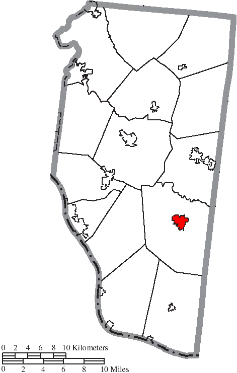 Map of the municipal and township boundaries of Clermont County, Ohio, United States, as of the 2000 census, with the location of the village of Bethel highlighted. Township borders are shown only in unincorporated areas in order to differentiate incorporated and unincorporated areas more clearly.